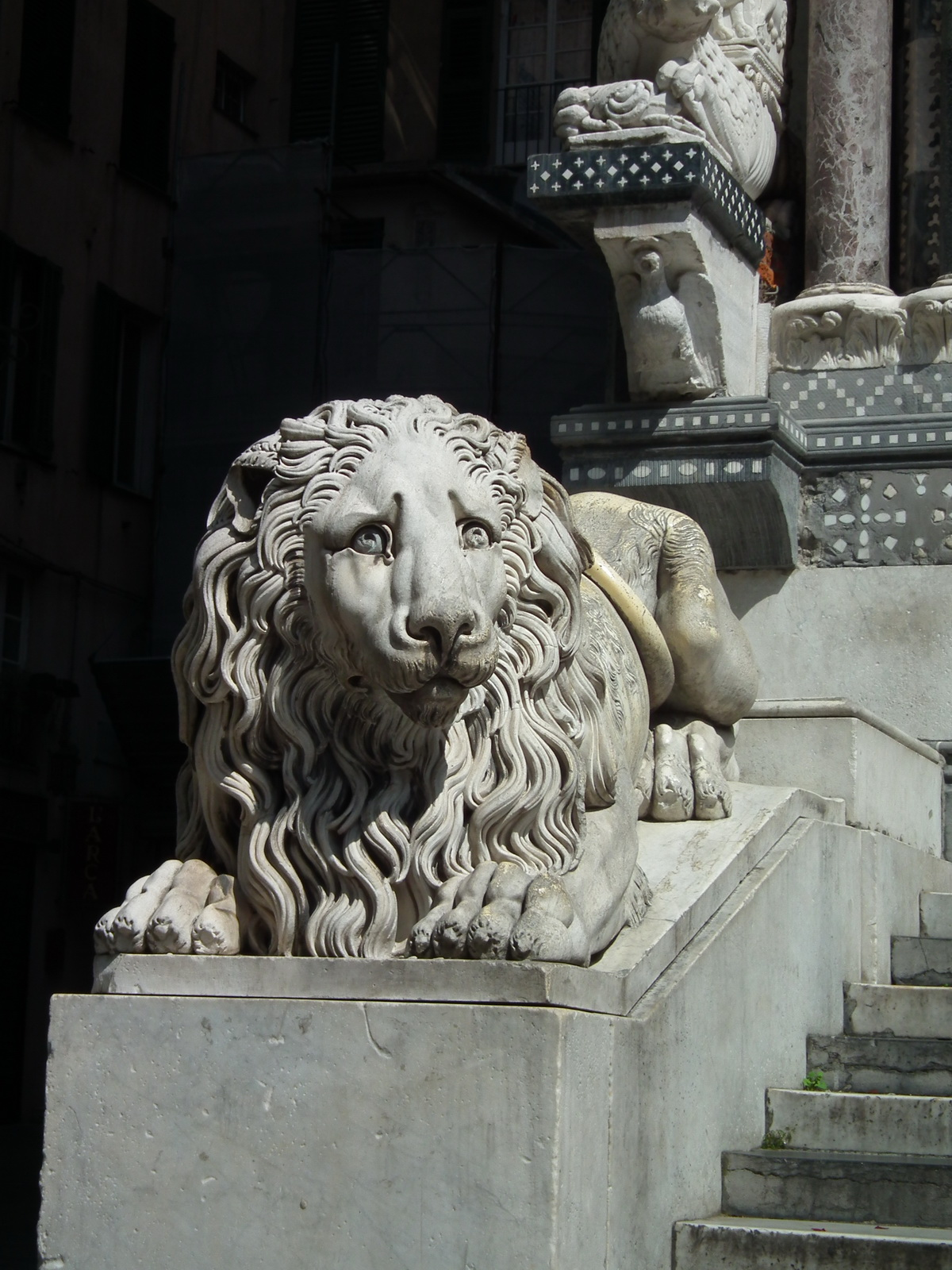 Genoa Cathedral Native nameCattedrale di San LorenzoLocationGenoa, Liguria, ItalyCoordinates44° 24′ 26.92″ N, 8° 55′ 53.83″ E Established1118: consecrated 17th century: finished construction